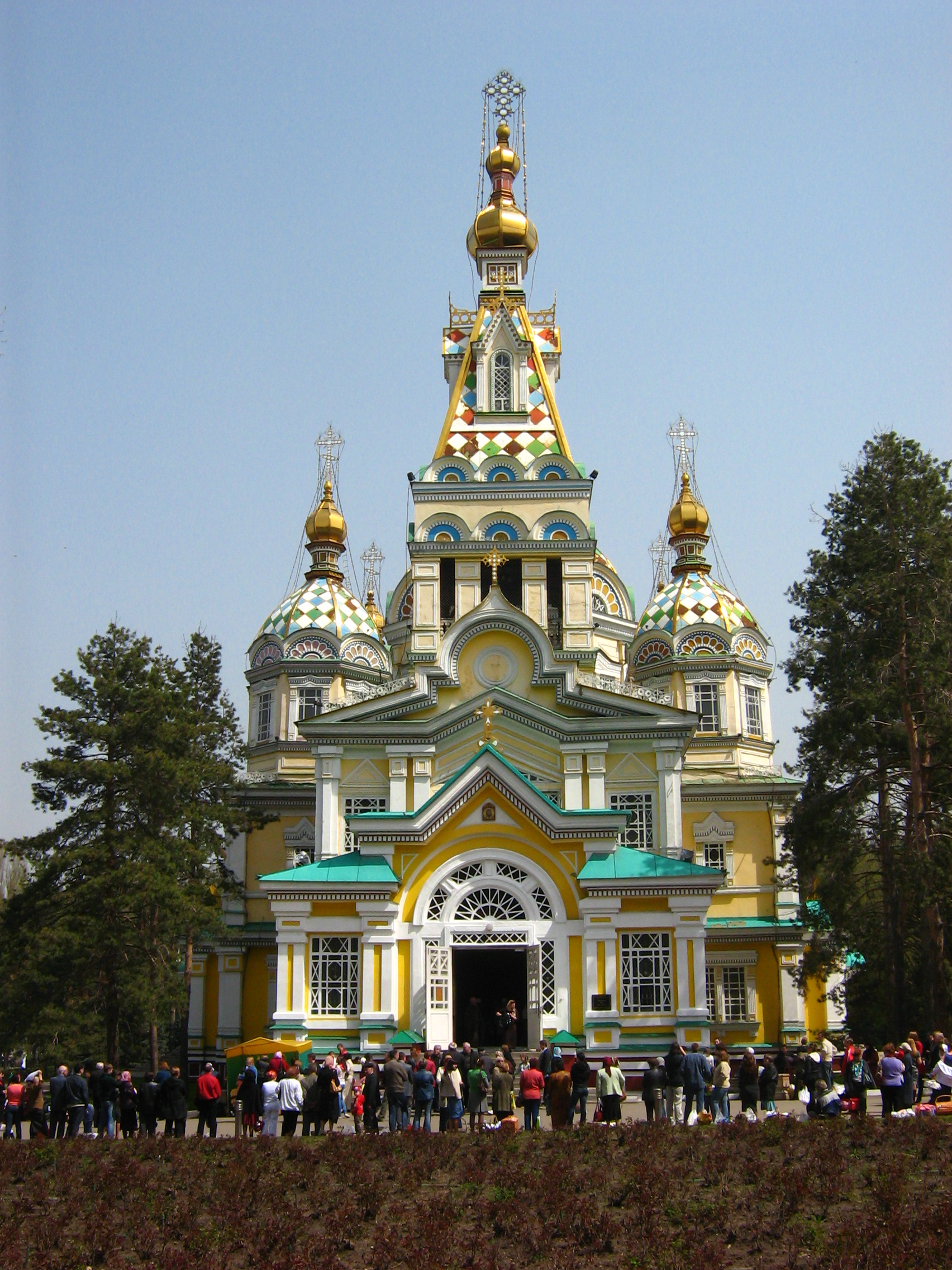 Ascension Cathedral, Almaty - the Easter afternoon, April 19th, 2009.